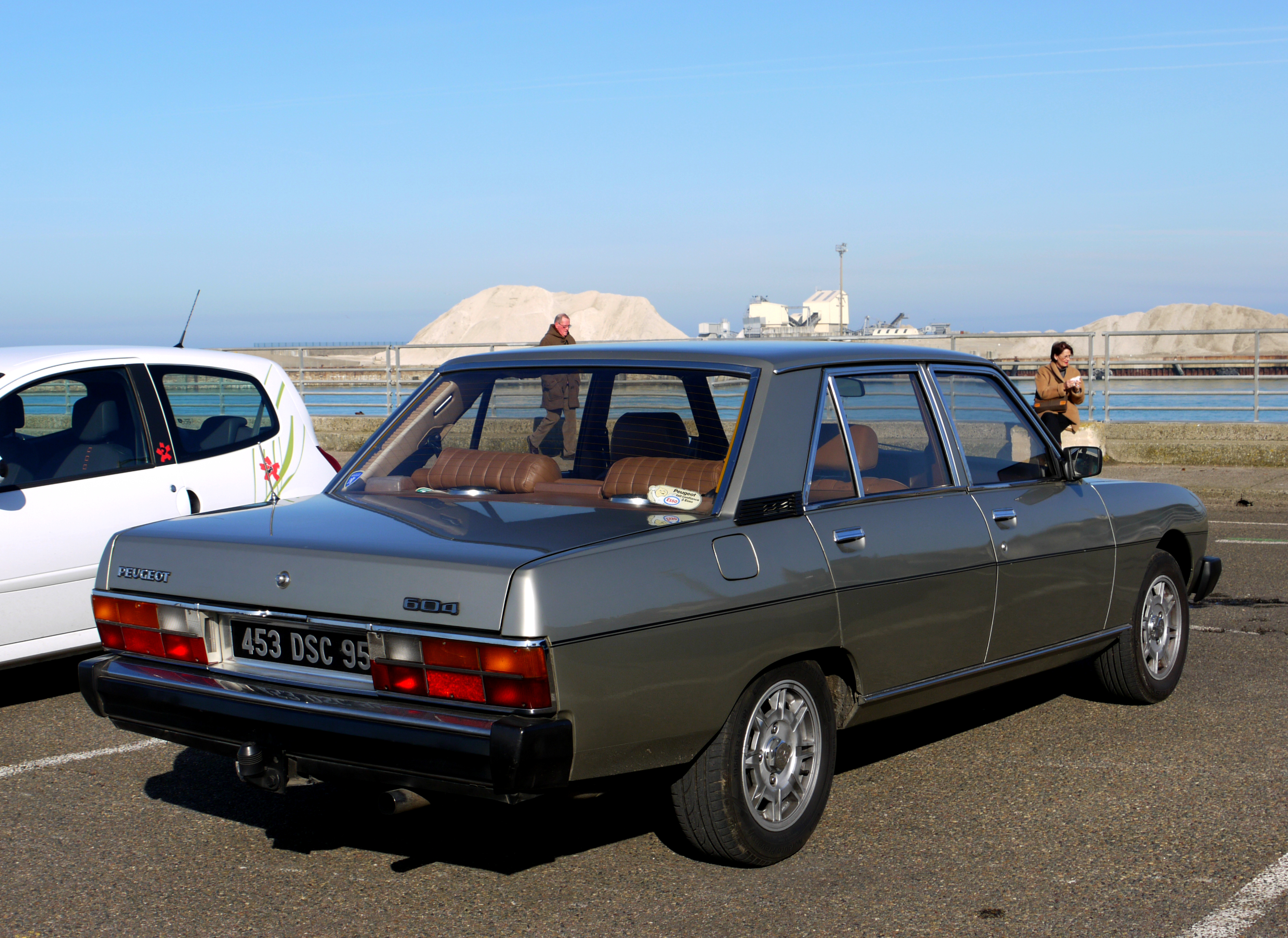 Peugeot 604 with brown leather interior - all in immaculate condition.